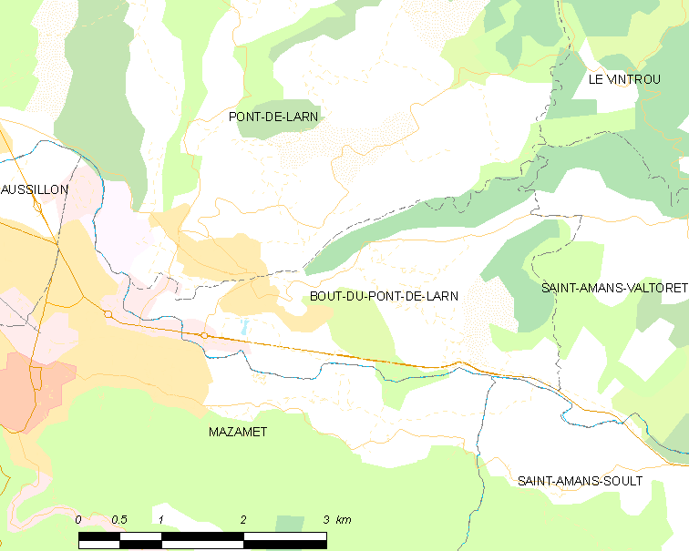 Map commune FR insee code 81036.png - Bout-du-Pont-de-Larn